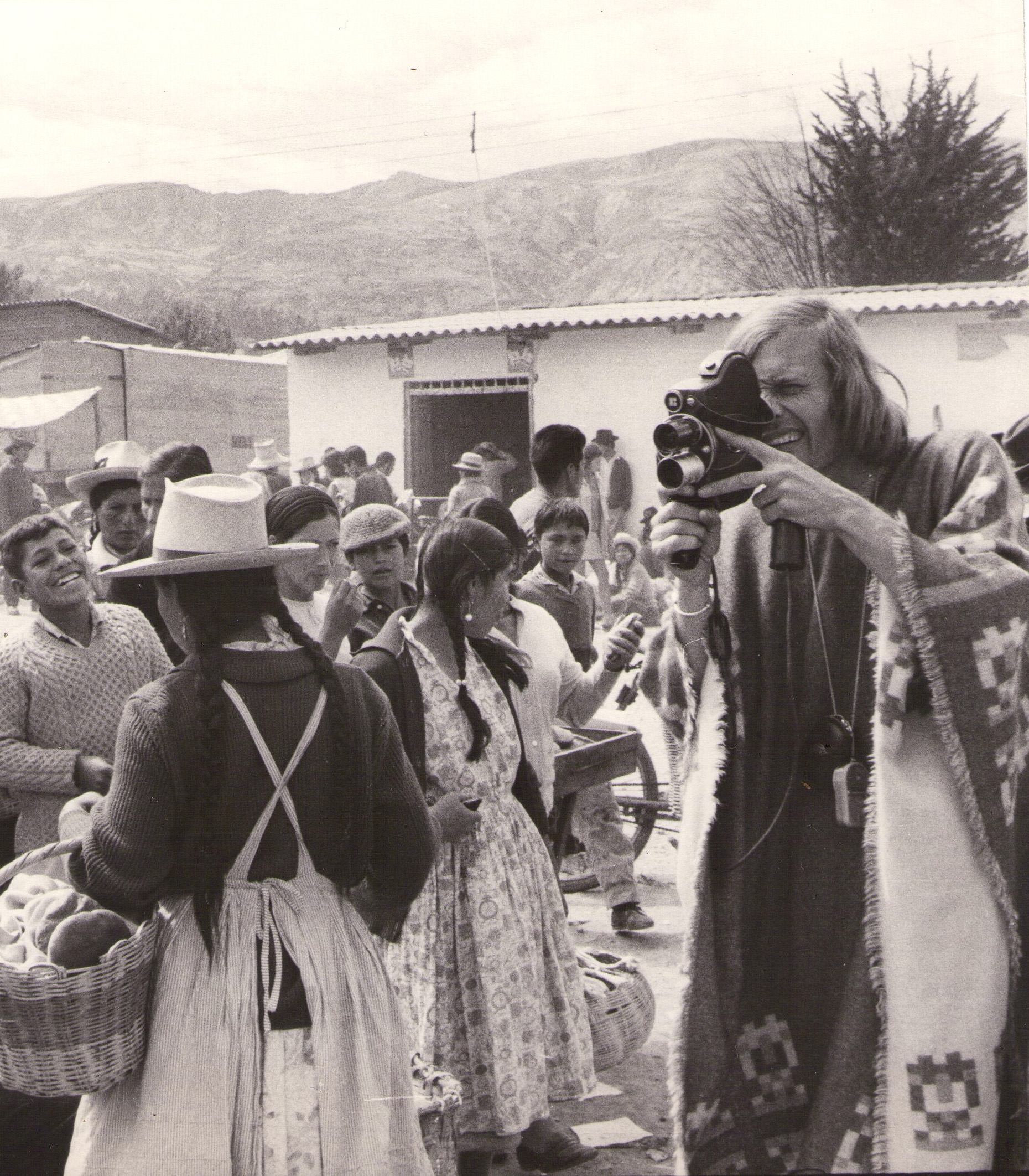 Jean Paul Janssen films in Huaraz - Peru some days after the earthquake 1970